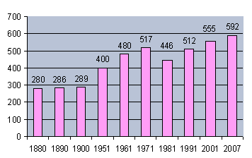 St. Sigmund's population (1880-2007).